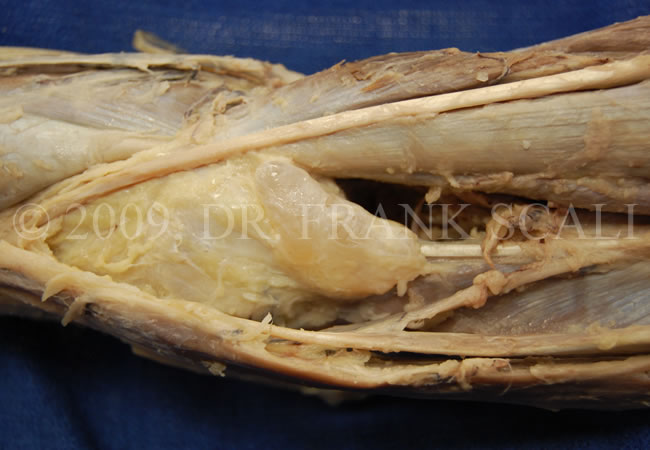 A Baker's cyst (popliteal cyst) is located behind the knee and is a swelling of the popliteal bursa. In this image, the Baker's cyst is the yellowish tissue and was discovered during routine dissection. The pathological condition is usually benign and is not surgically excised unless it becomes symptomatic.